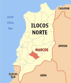 Map of Ilocos Norte showing the location of Marcos